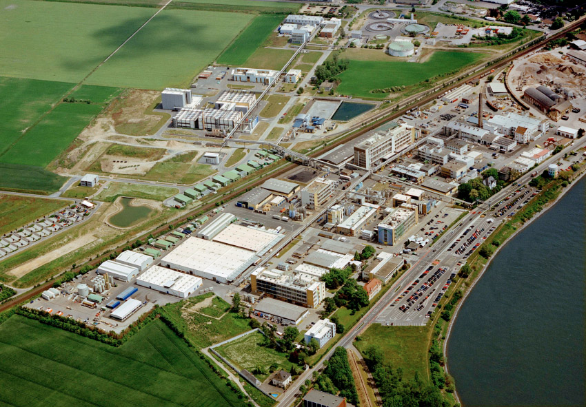 Arial view of Merck KGaA´s chemical production plant in Gernsheim. The plant located on the River Rhine is Merck’s second-largest production site. Important products from the Gernsheim site include pearlescent pigments, precursors of liquid crystals, evaporation chemicals, sorbents, and organic products like dithianon and methylglucamine.